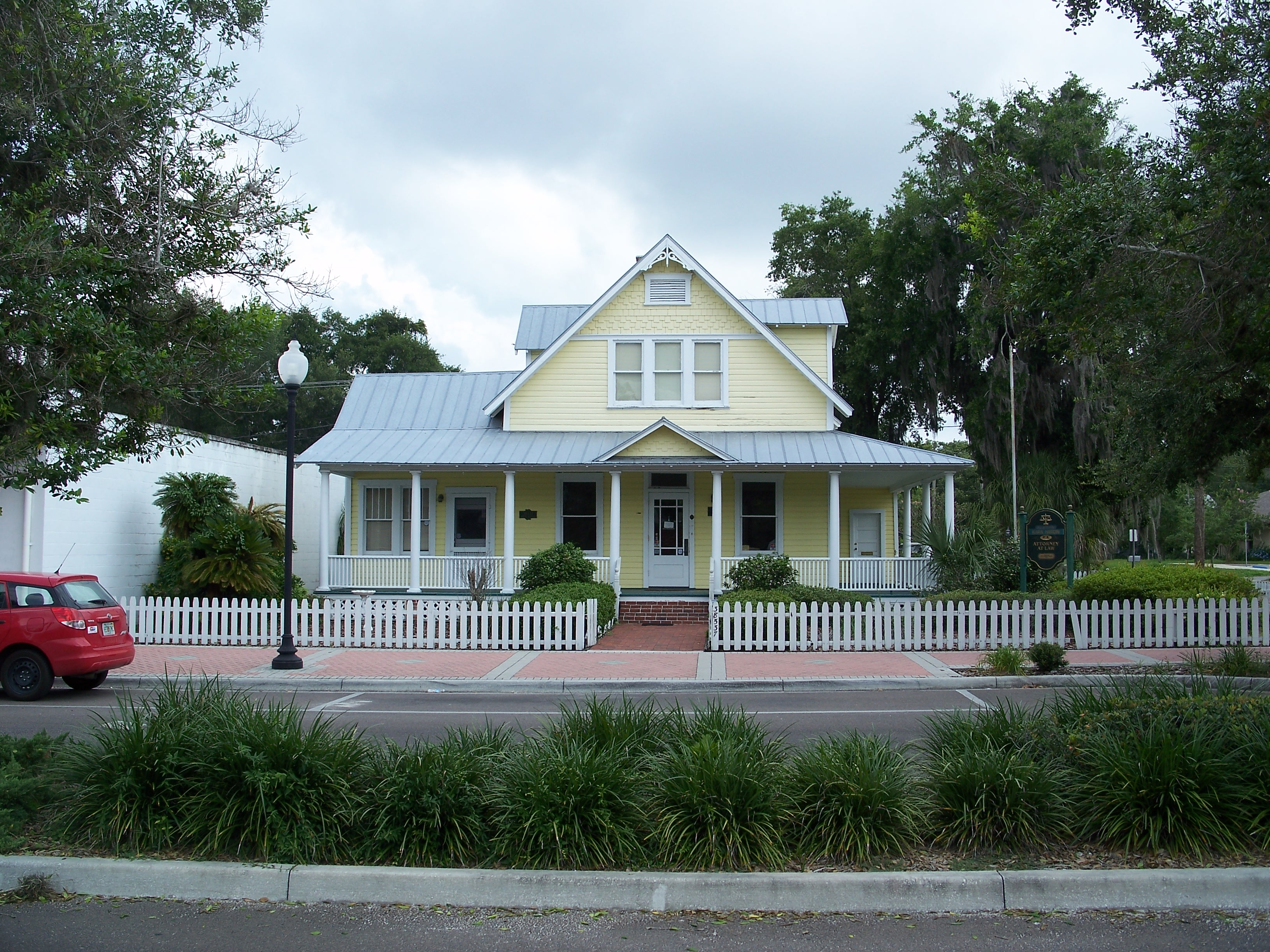 Capt. Harold B. Jeffries House, in Zephyrhills, Florida